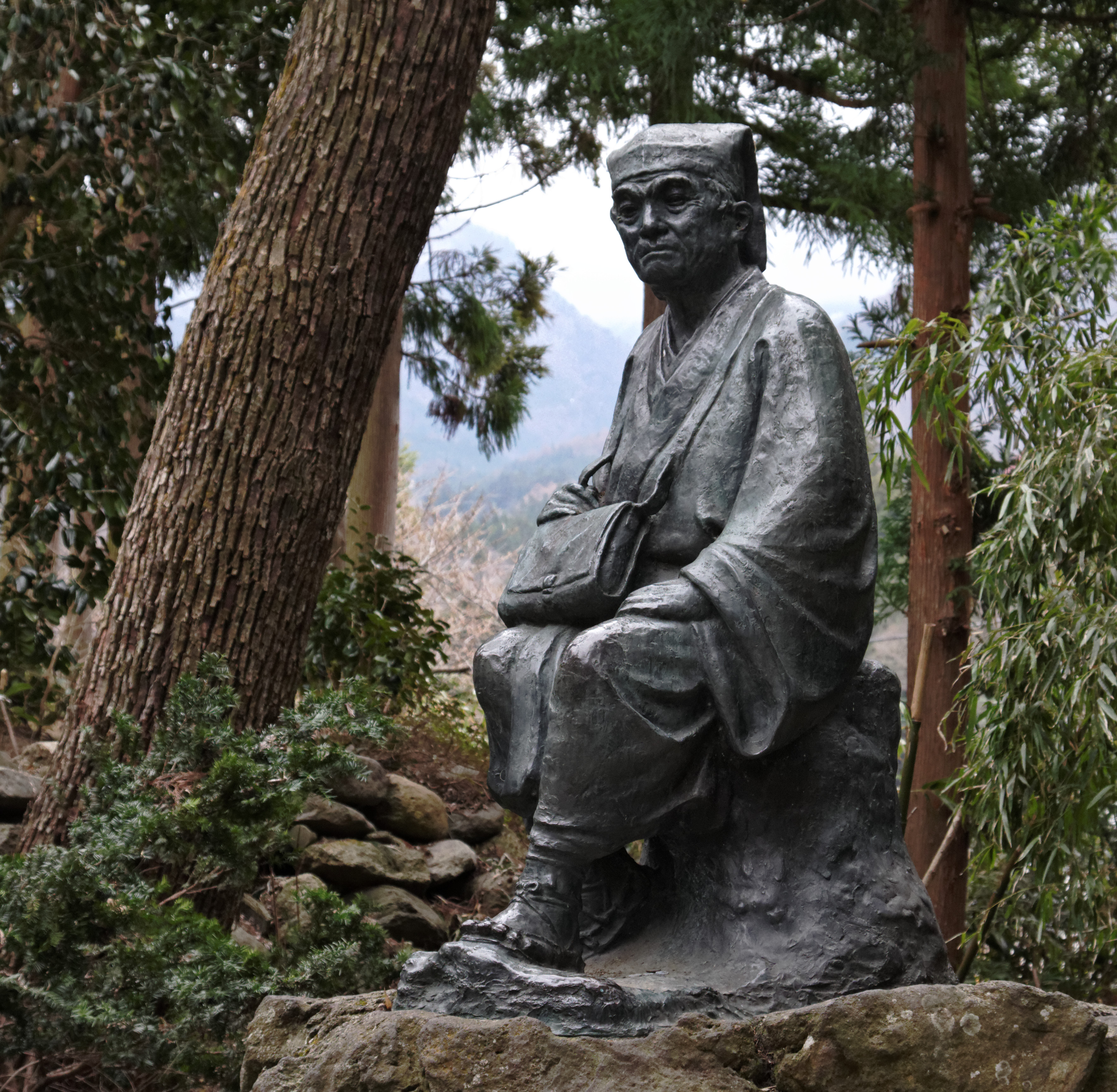 Mandatory Matsuo Basho statue